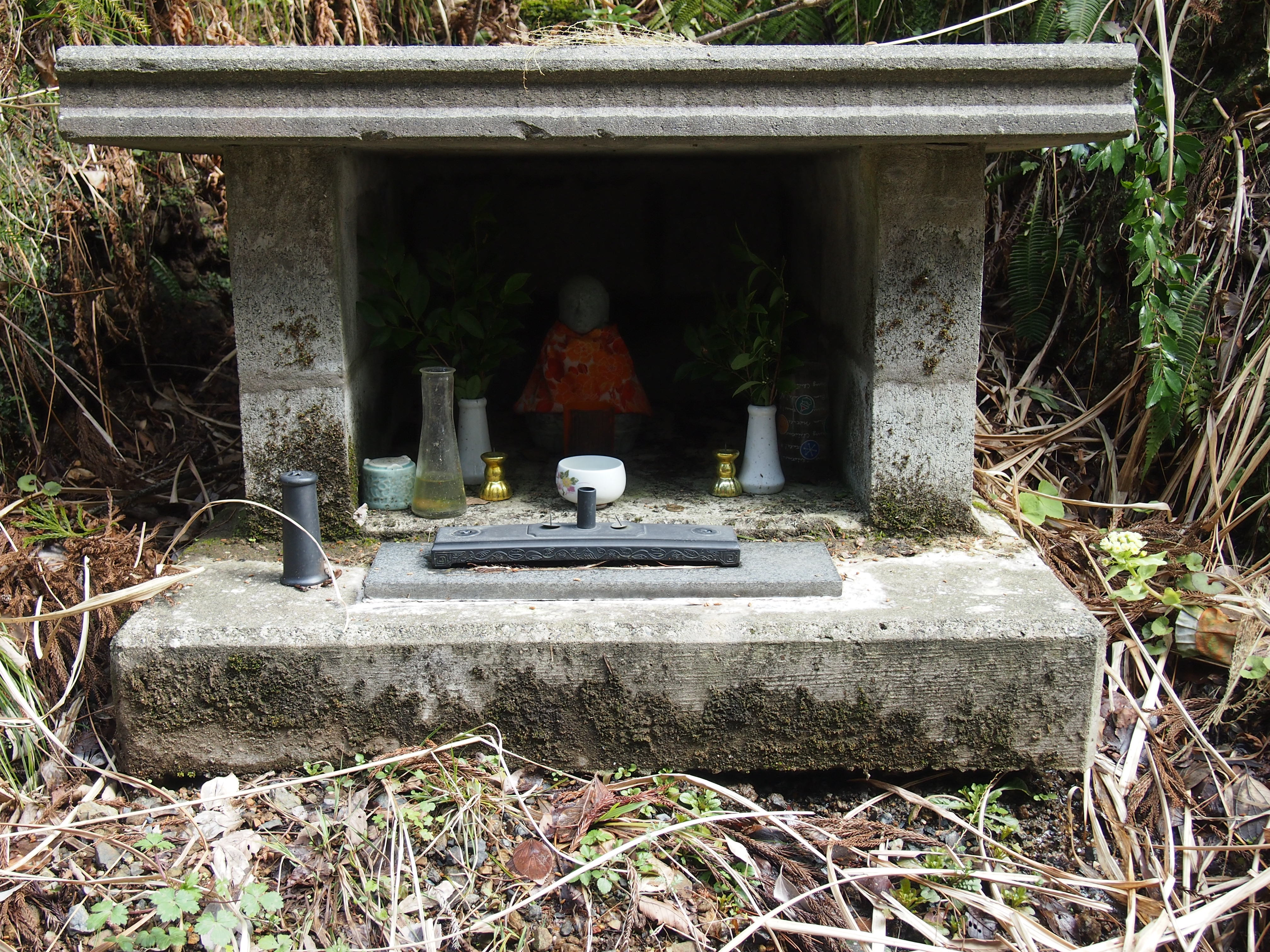 Jizo of Utsurogi-pass in Tsuruga, Fukui Prefecture, Japan